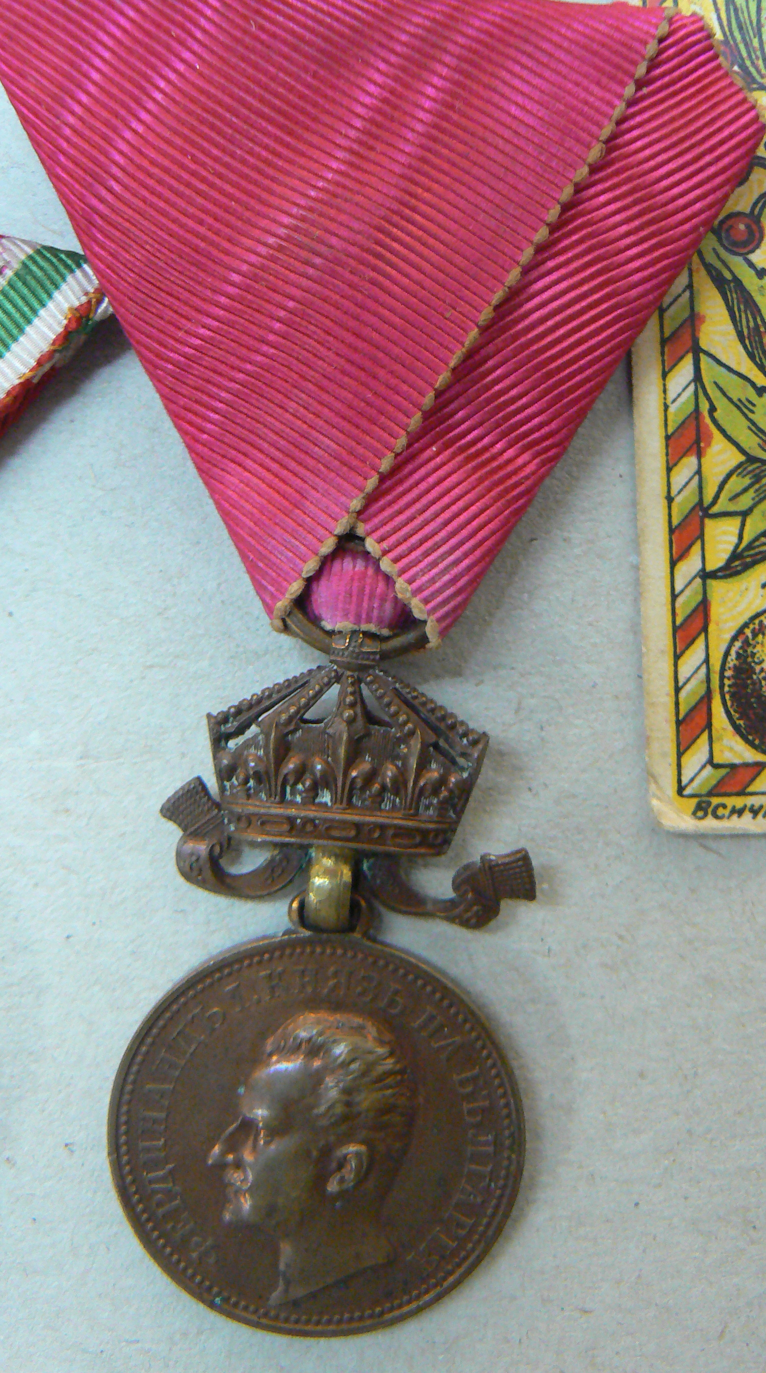 Bulgarian Medal for Merit, 1st Ferdinand emission. Exhibit of the Regional History Museum - Vratsa